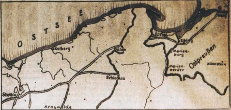 Map showing the planned Reichsautobahn Berlin-Königsberg. Originally printed in German newspaper "Westpreußische Zeitung" of January 1939, also published in George Zaskiewicz "The Book of Elbląg Vol 3", Elblag, 2005.